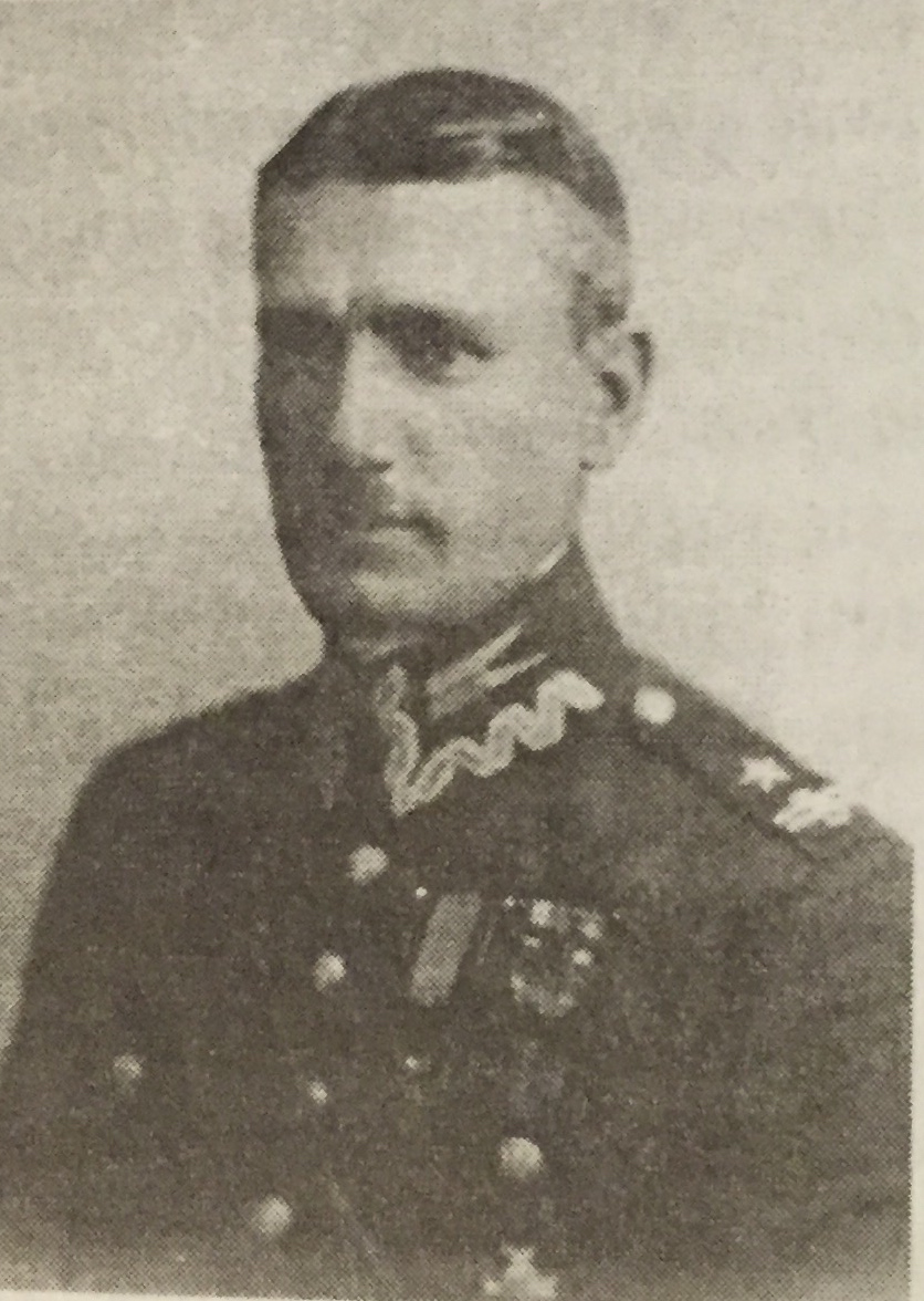 Commander of the Polish Army Cavalry